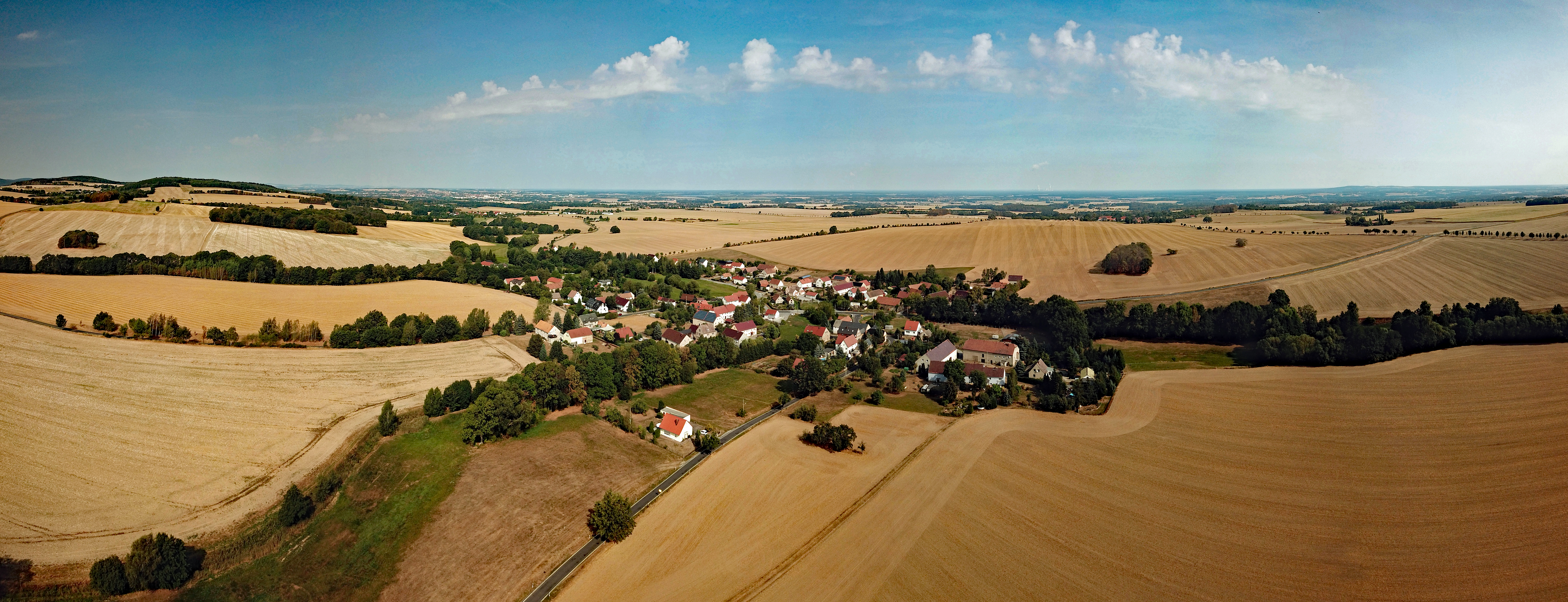 Meschwitz (Hochkirch, Saxony, Germany) Hornjoserbsce: Powětrowy wobraz Mješic.